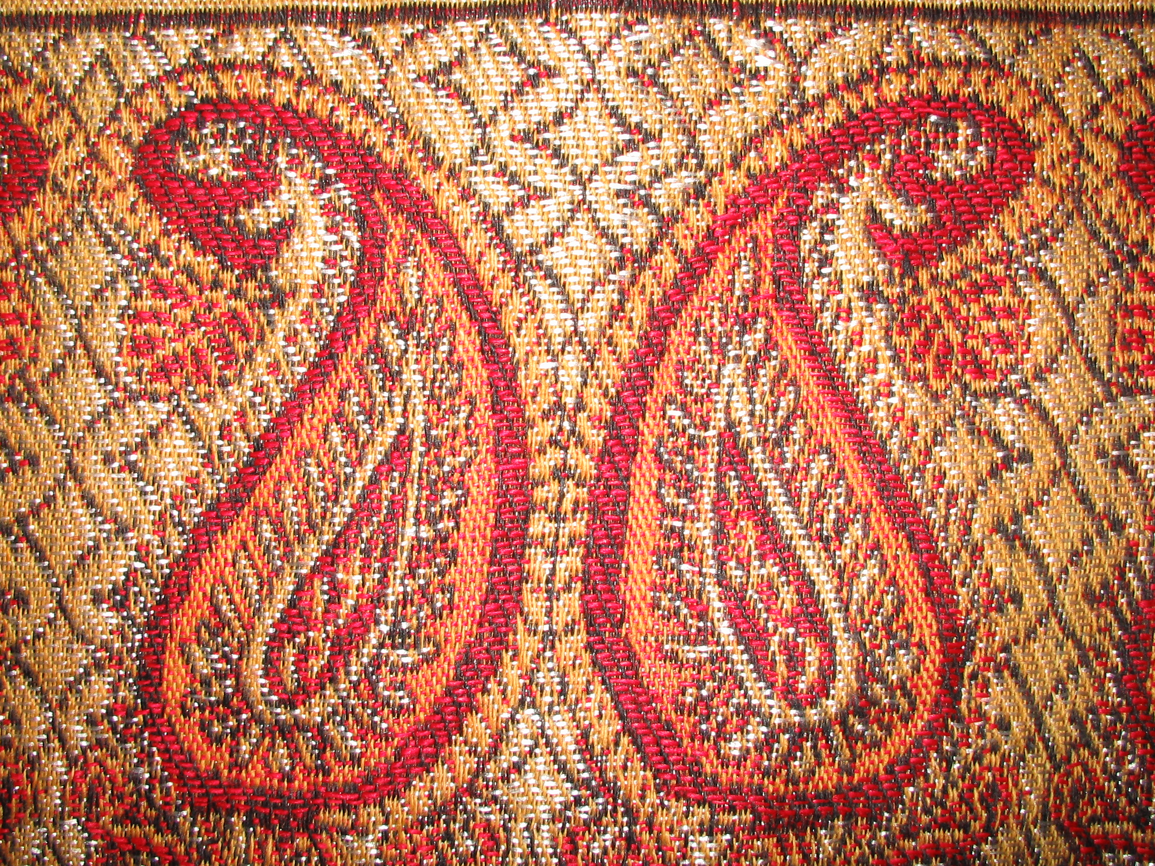 Boteh a persian motif on textile looking like an almond.